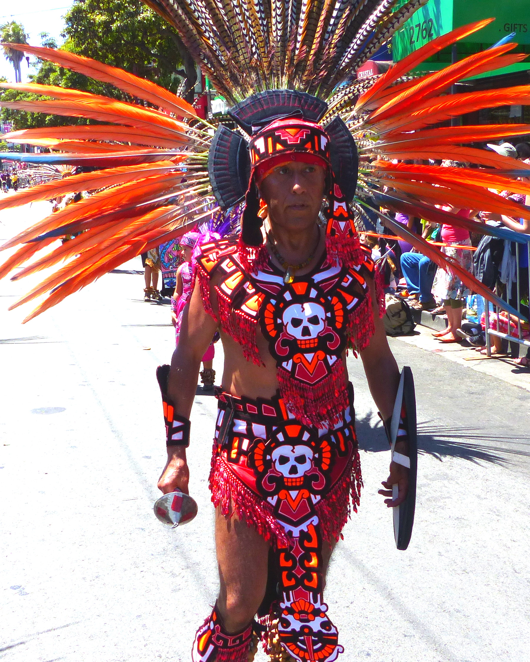 San Francisco Carnaval 2014 Parade -Ollin Anahuac Traditional Aztec Dance Group281